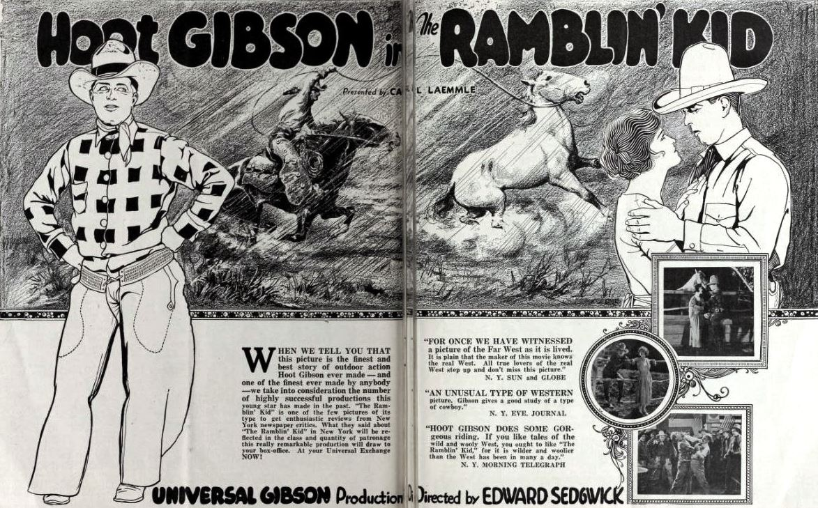 Advertisement for the American western film The Ramblin' Kid (1923), on pages 14 and 15 of the October 6, 1923 Universal Weekly.